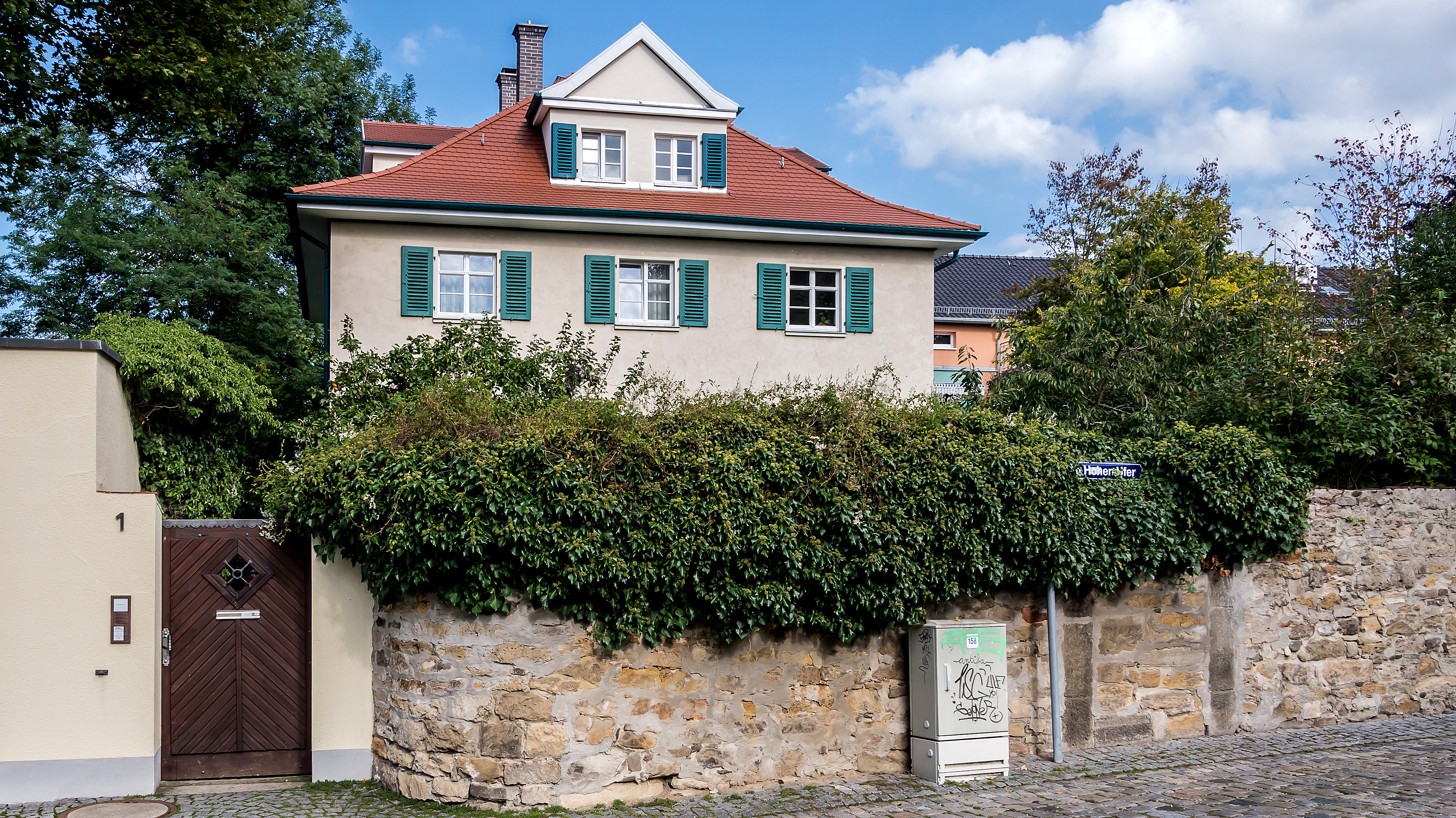 Saalfeld Am Hohen Ufer 1 Wohnhaus mit Garage, Grundstück und Einfriedung